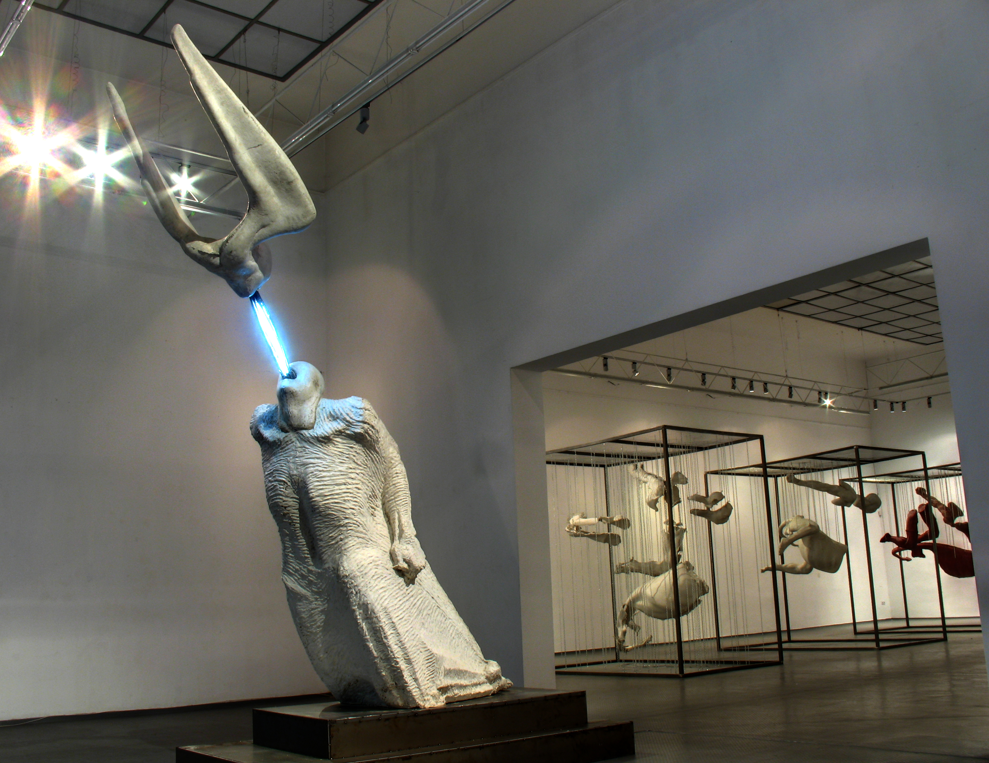 поглед към "Последният будоар" - самостоятелна изложба, скулптура, кръв и видео, 2011, галерия "Райко Алексиев", София